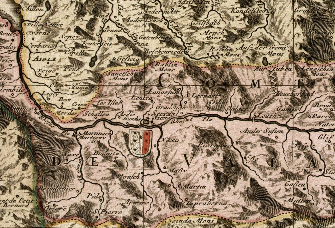 Map of the Lower Valais, detail of Guillaume Sanson, La Suisse diviseé en ses treze Cantons, ses Alliez & ses Sujets (1693, reprinted 1696)